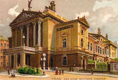 Description: Postcard (circa 1900) showing the Neue Deutsche Theater in Prague Artist: unknown Publisher: Kunstverlagsanstalt Paul Fink, Chemnitz Source: Cathalia